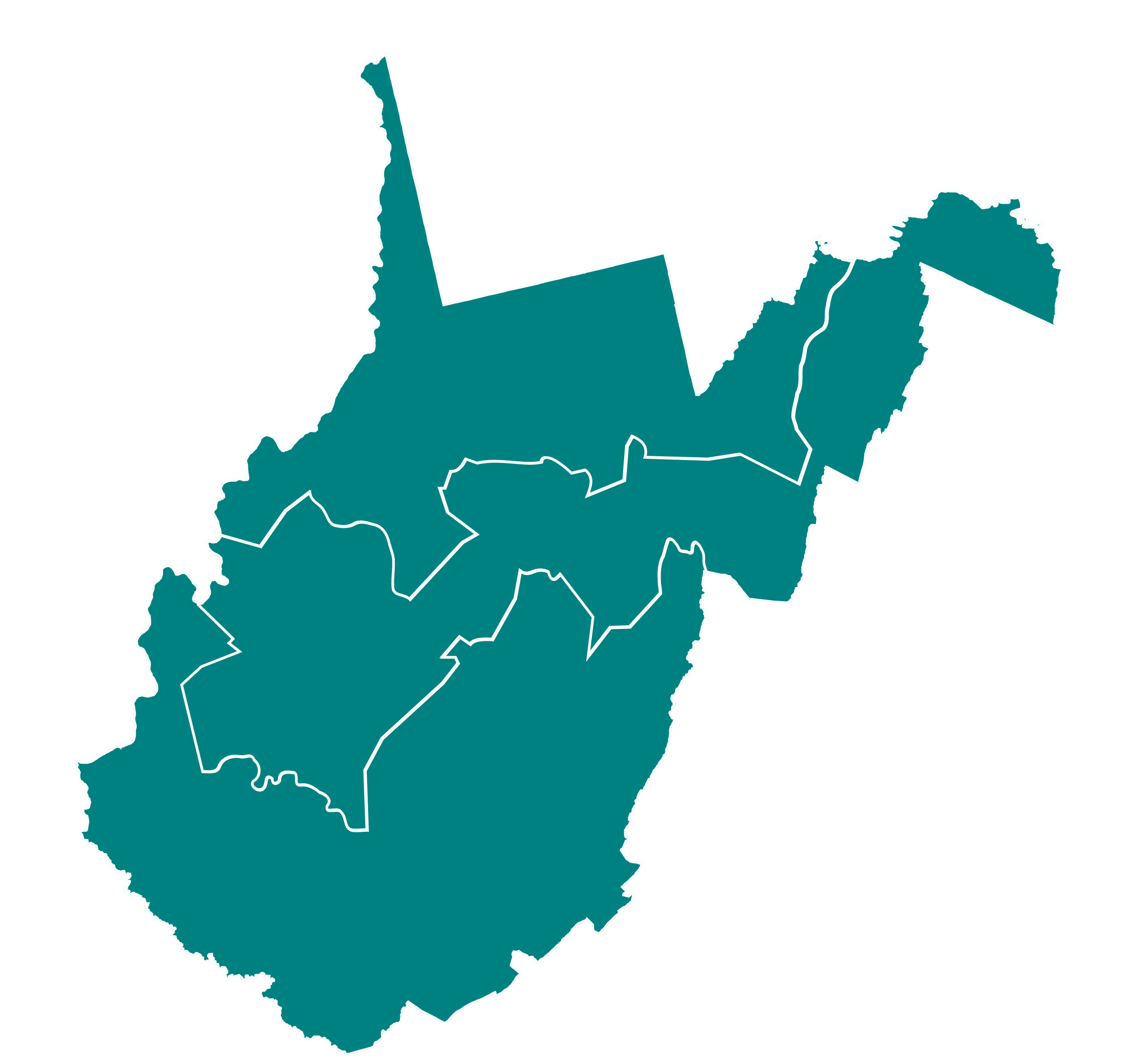 Teal congressional districts represent Hawkins majority.